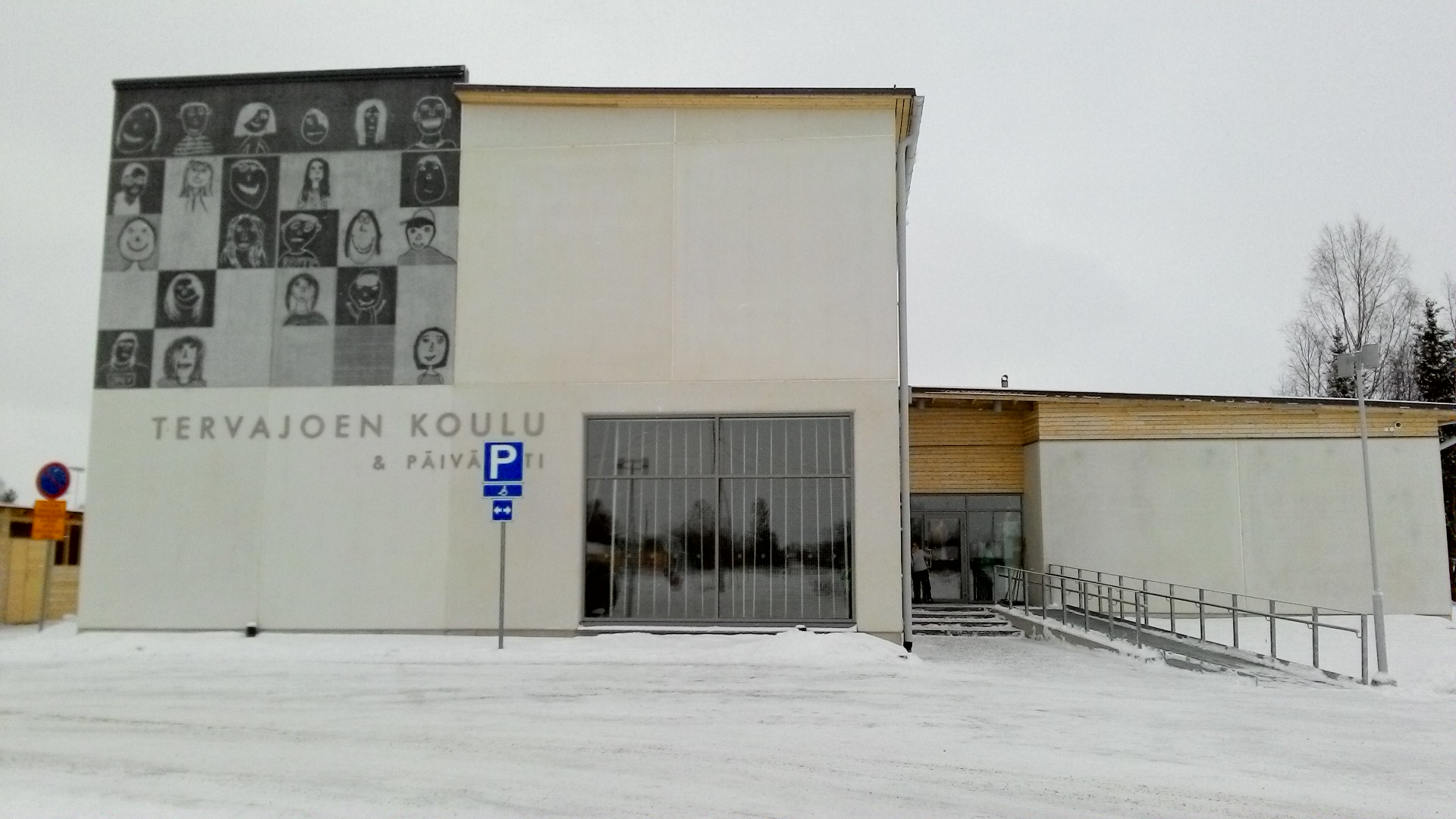 School in Tervajoki, Vaasa, Finland, northeast entrance.